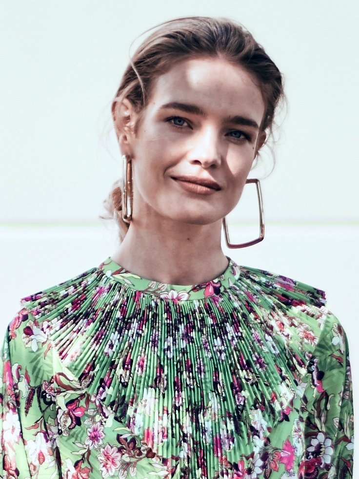 Natalia Vodianova at Paris Fashion Week RTW Spring/Summer 2019